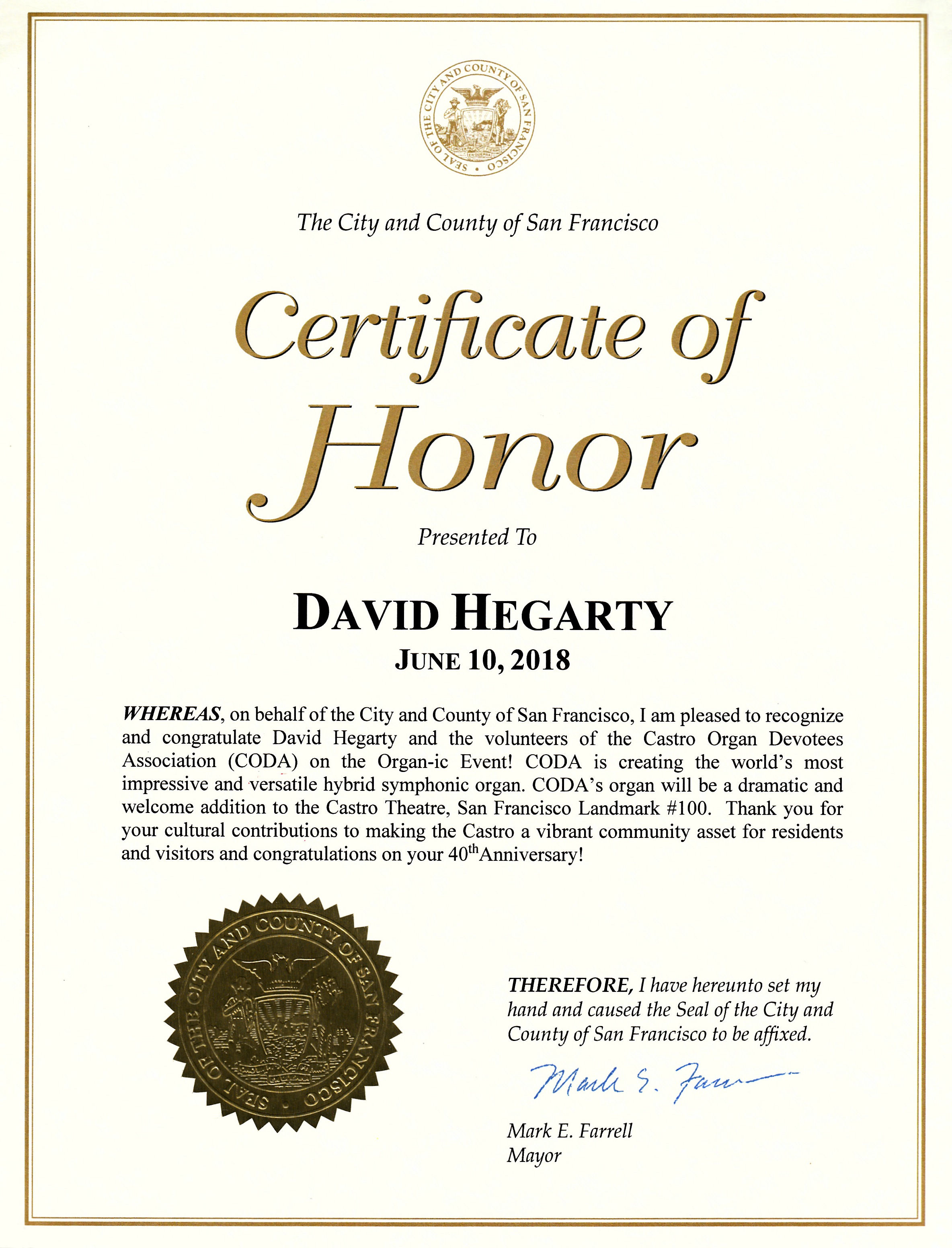 Certificate of Honor awarded David Hegarty by the Mayor of San Francisco honoring his 40th year as organist for the historic Castro Theatre in San Francisco.